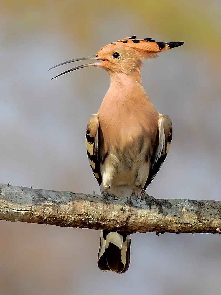 Common Hoopoe (Upupa epops) photograph by Shantanu Kuveskar